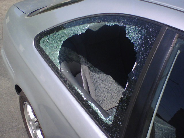 A car that has been burglarized. Bad for me, good for Wikipedia.